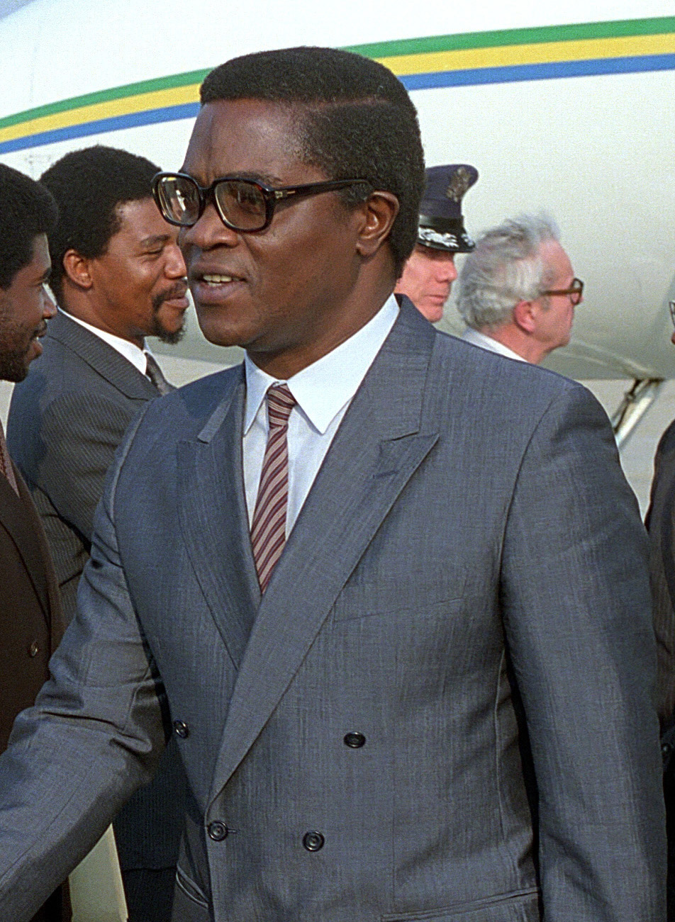 The President of the Democratic Republic of Sao Tome and Principe, Manuel Pinto da Costa, greets an official US State department delegation upon his arrival to the base. Location: ANDREWS AIR FORCE BASE, MARYLAND (MD) UNITED STATES OF AMERICA (USA)